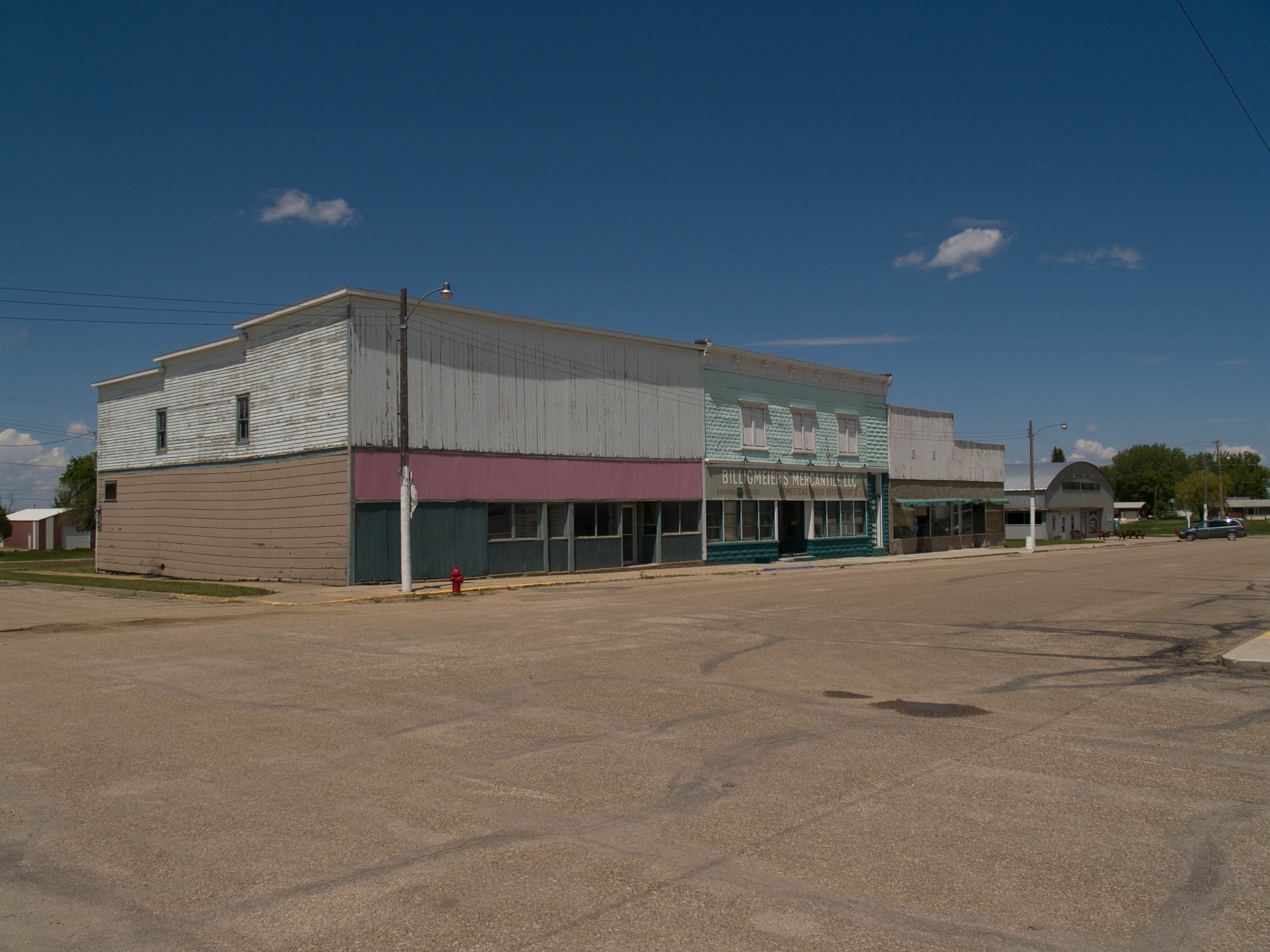 Buildings in Goodrich, North Dakota